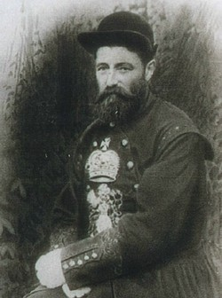 This man was Barge Master to Her Majesty Queen Victoria and famous rower / sculler who won the Doggett Coat and Badge, the oldest sporting event ion the world